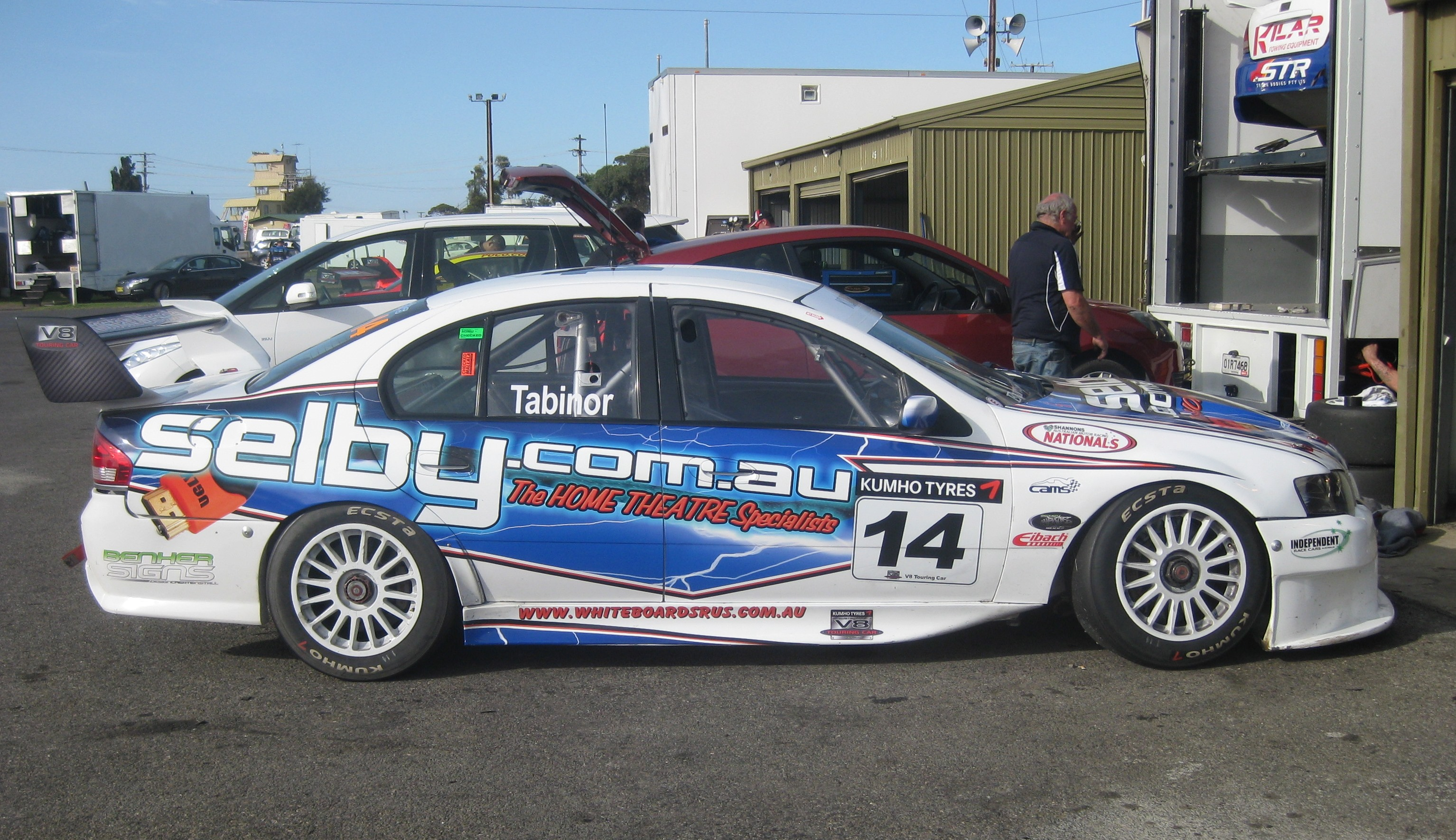 The Ford Falcon (BF) of Simon Tabinor at Mallala Motor Sport Park on 27 April 2014. Tabinor was contesting Round 1 of the 2014 Kumho Tyres Australian V8 Touring Car Series